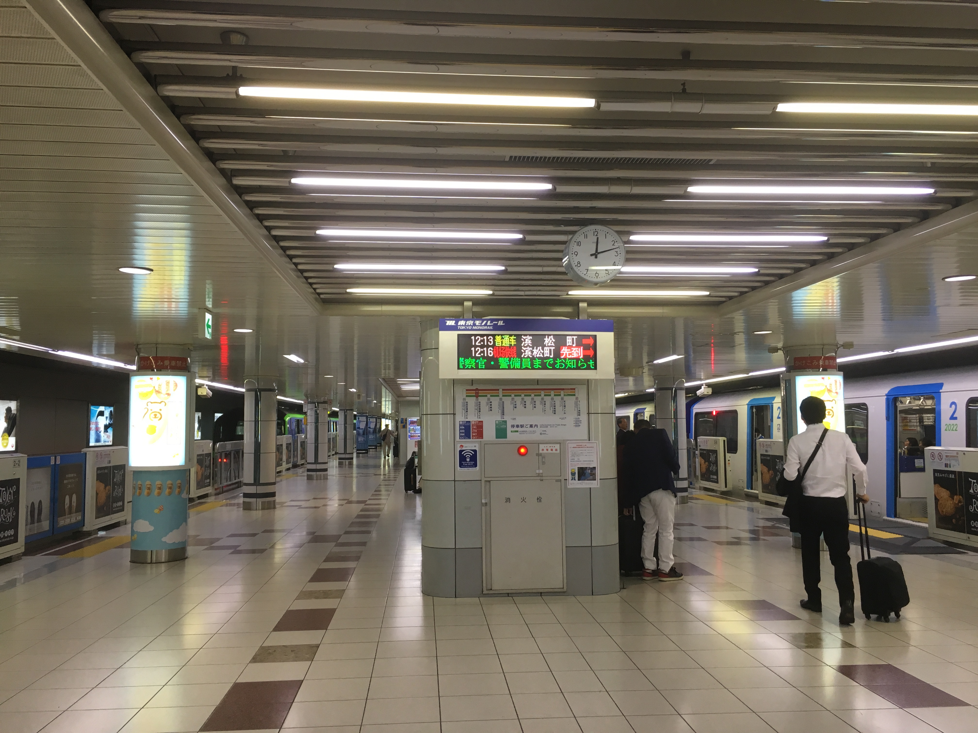 Haneda Airport Terminal 1 Station (羽田空港第1ビル駅)